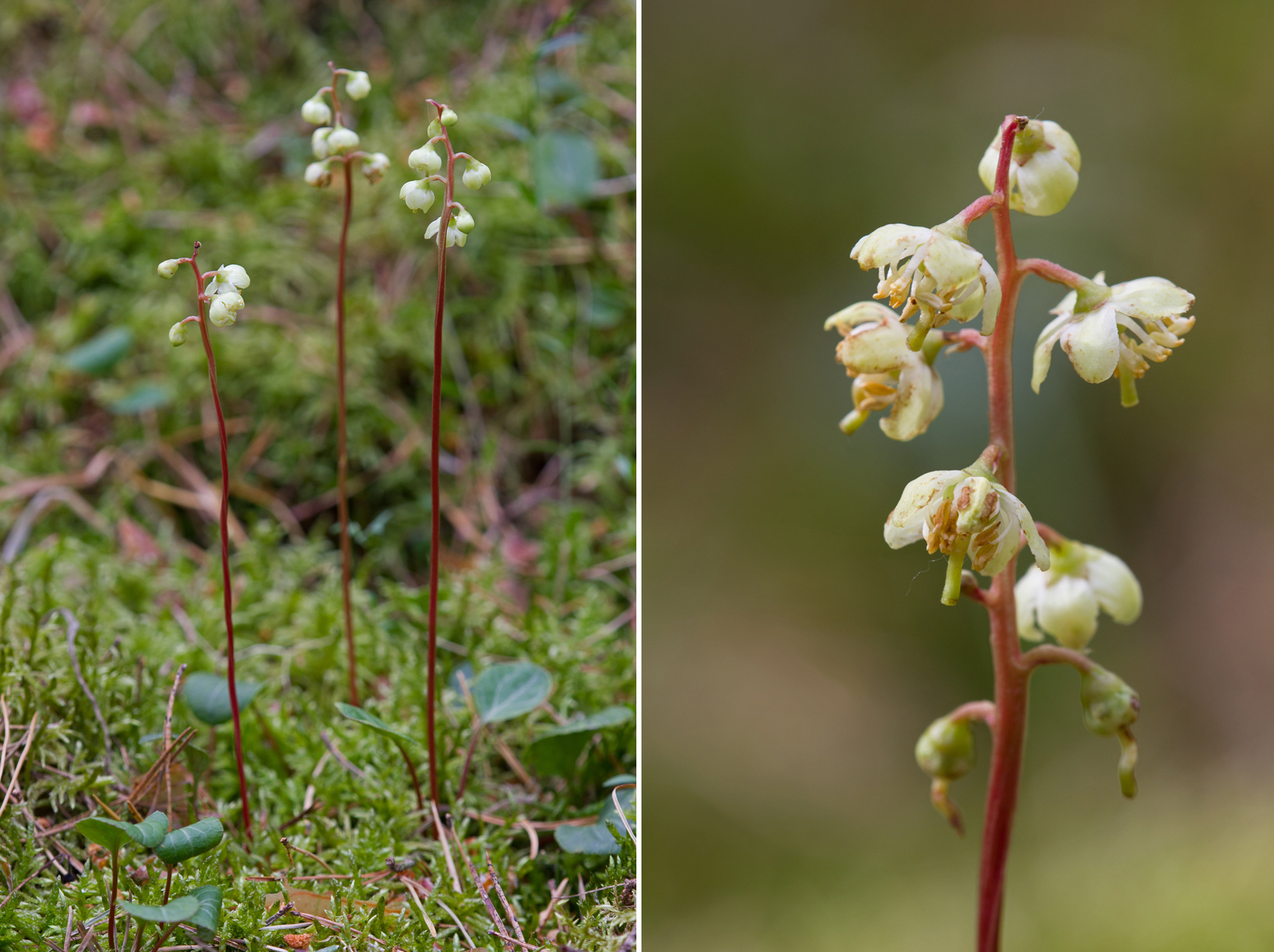 Habitus and inflorescence of Pyrola chlorantha.